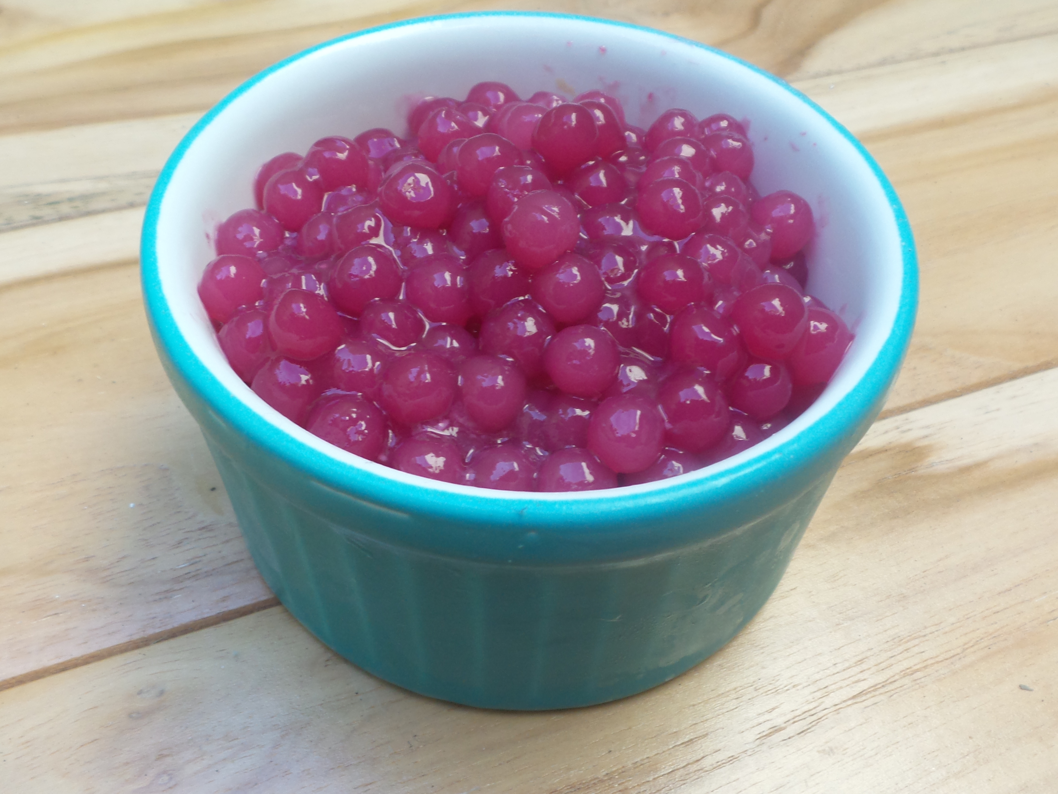 Sagu de vinho, a southern Brazilian dessert, served in a ramekin.